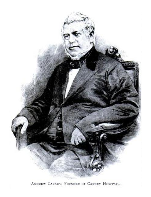 Portrait of Andrew Carney (1794-1864) founder of Carney & Sleeper, a clothing manufacturer. Helped endow Boston College and the Immaculate Conception Church in the South End of Boston. Founded the Carney Hospital in 1863